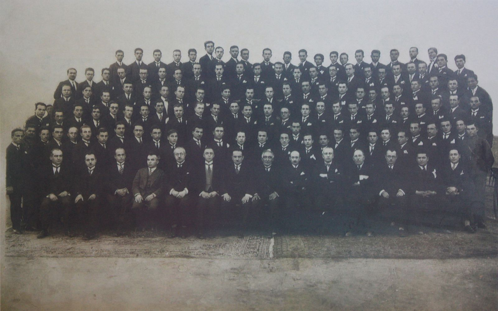 First Graduates of Ankara Law School